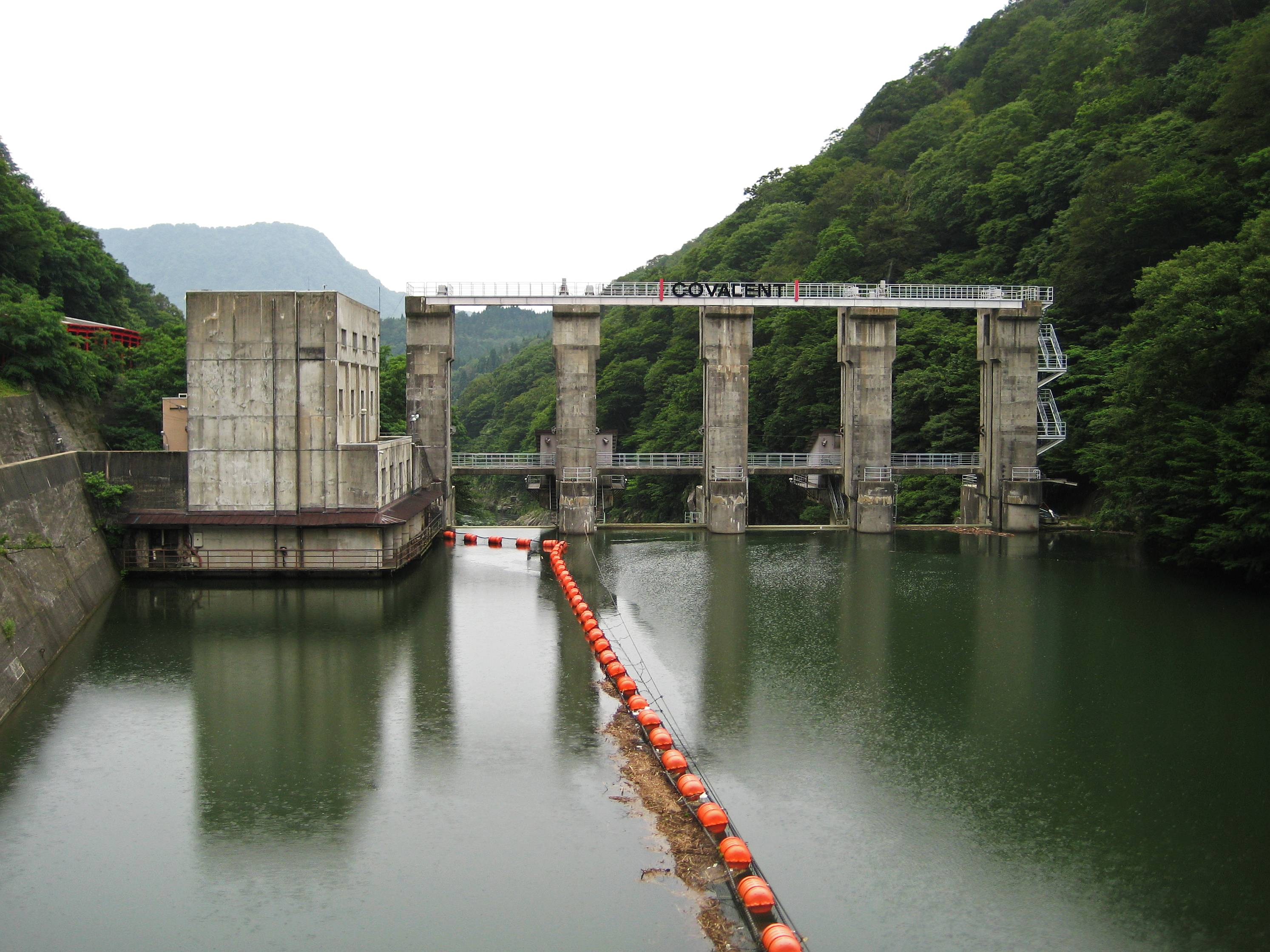 Akashiba Dam.